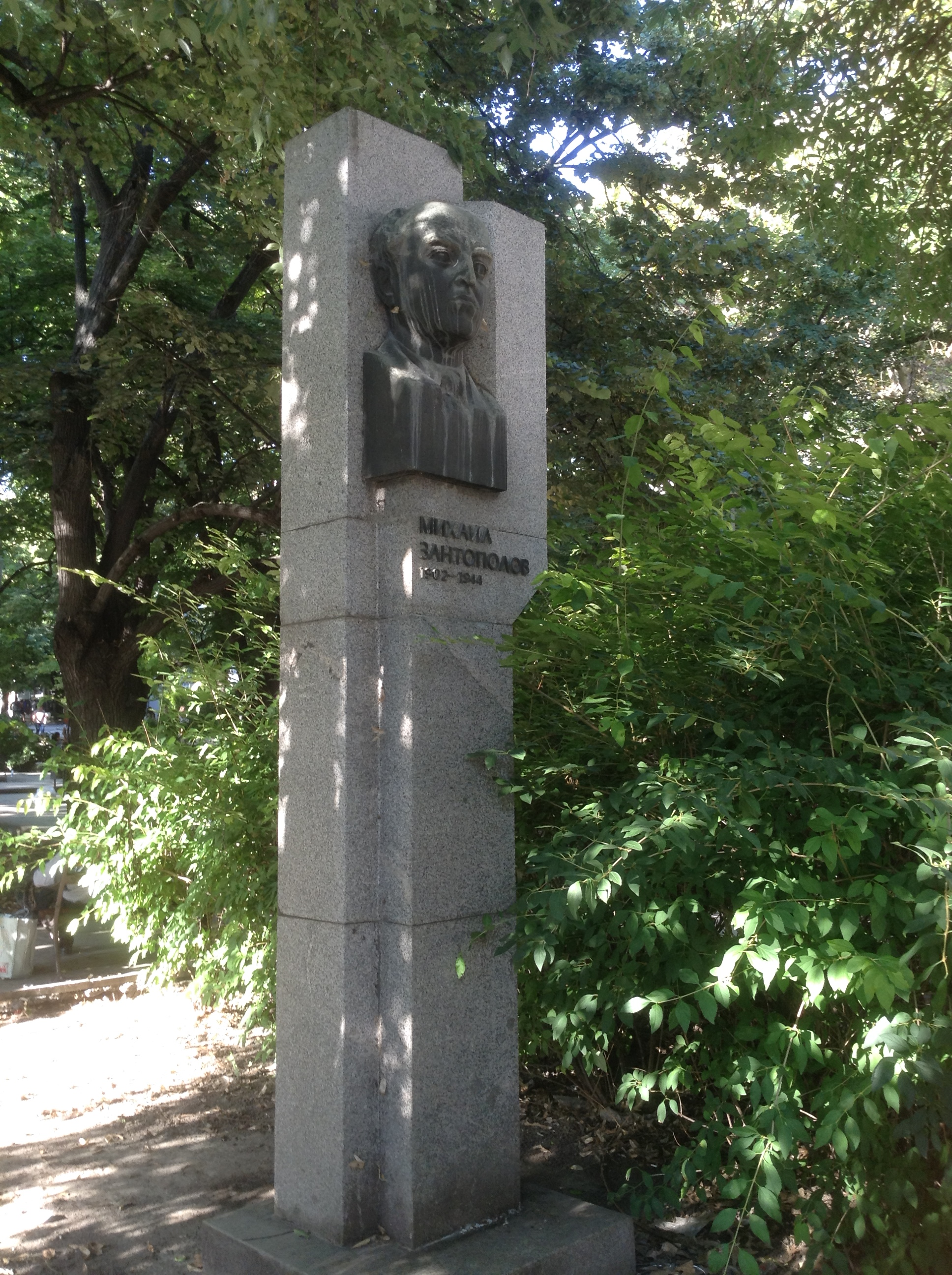 A memorial to antifascist Mikail Zantopolov in Varna.